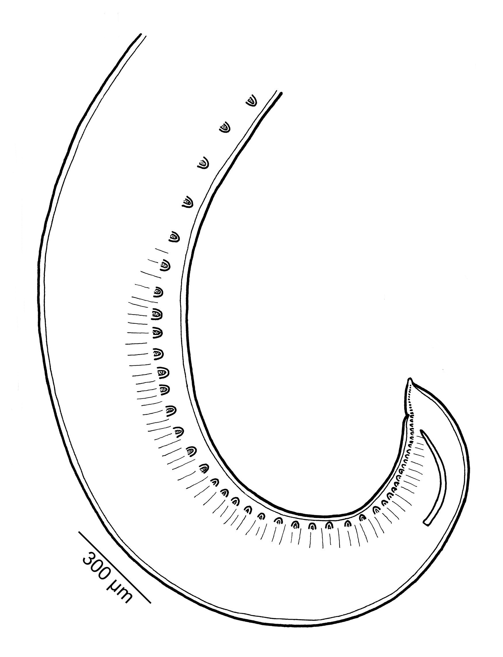 Raphidascaris (Ichthyascaris) etelidis Moravec & Justine, 2012 (Nematoda, Anisakidae), a parasite of the fish Etelis coruscans (Perciformes, Lutjanidae) off New Caledonia. Lateral view of posterior end of male showing all pairs of caudal papillae. Original line drawing by František Moravec. Species described in the article: Moravec, F., & Justine, J.-L. 2012: Raphidascaris (Ichthyascaris) etelidis sp. n. (Nematoda: Anisakidae), a new ascaridoid nematode from lutjanid fishes off New Caledonia. Zoosystema, 34, 113-121 Full PDF